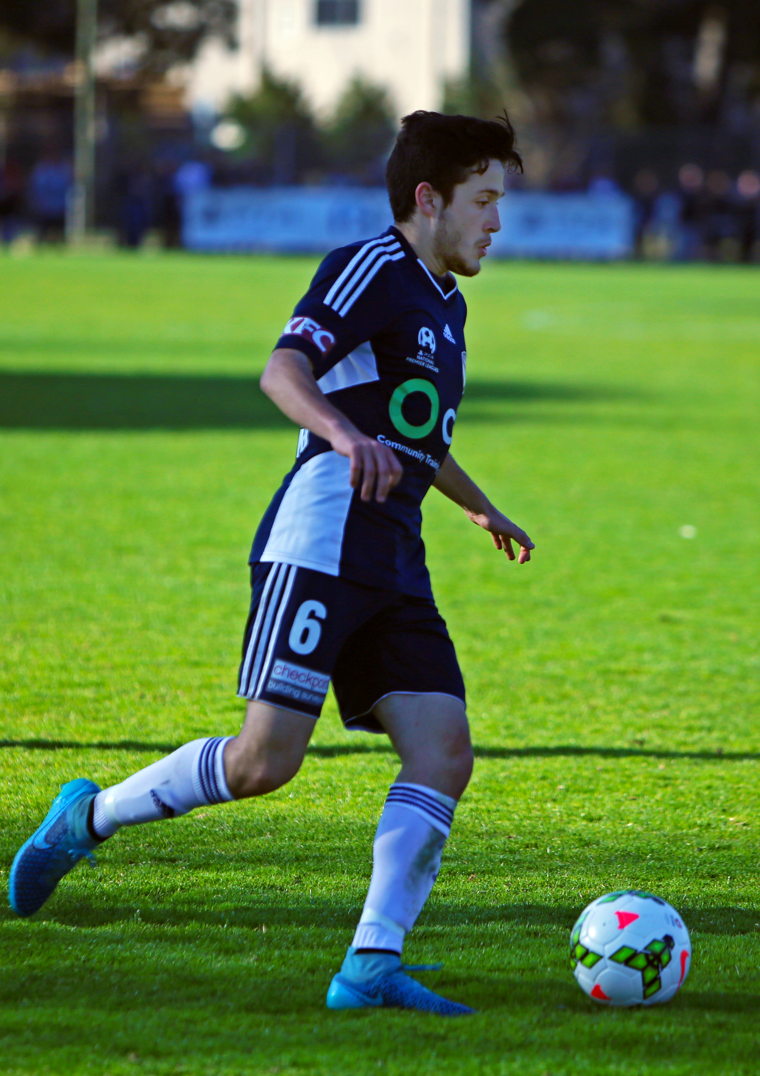 Stefan Nigro playing for Melbourne Victory Youth in the 2015 NPLV Promotion Playoff, September 2015